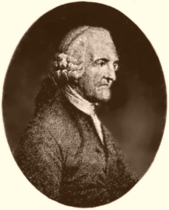 Edmond Hoyle